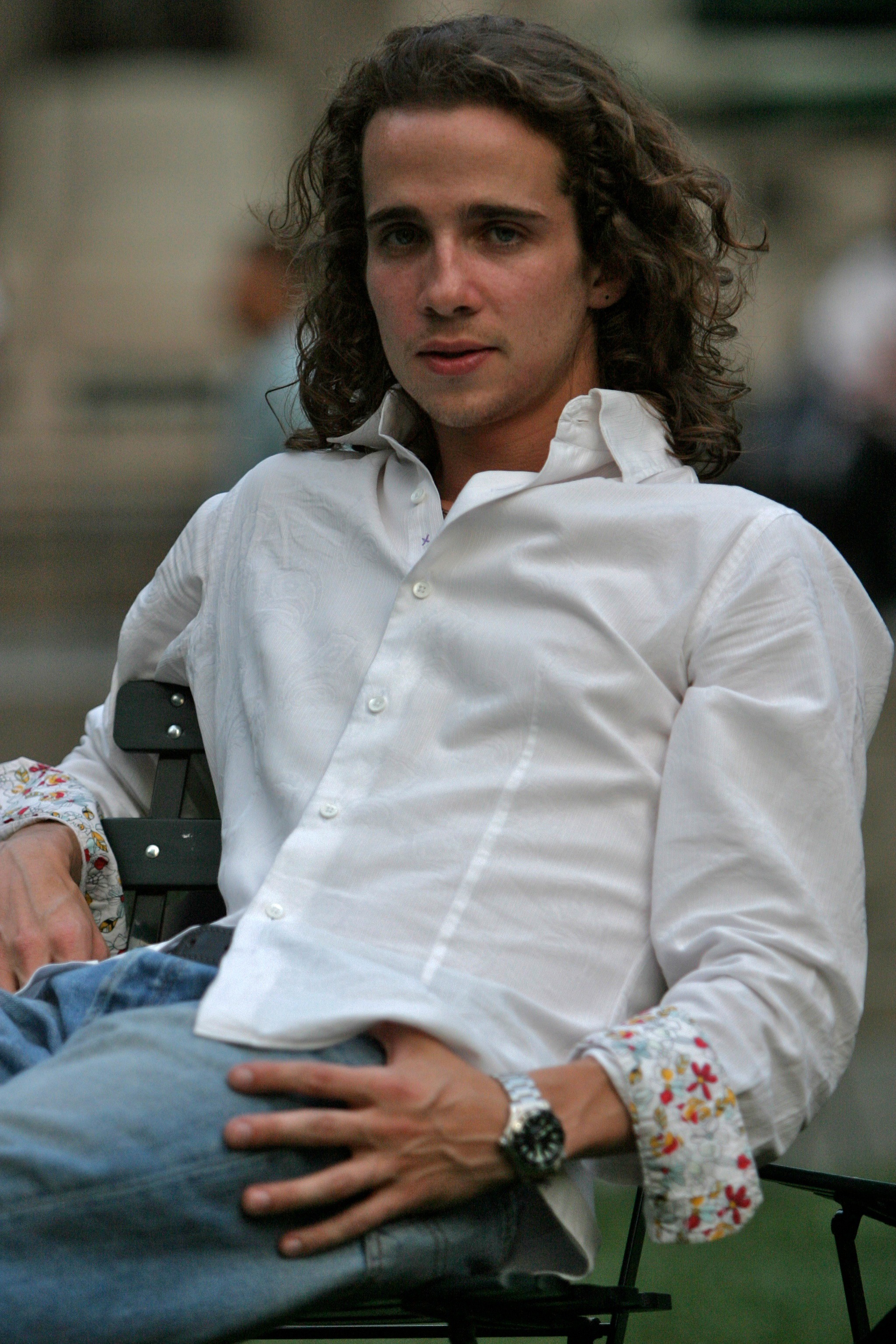 Christopher Schreiner at Bryant Park July 2008 Author - Eric W. Sydor